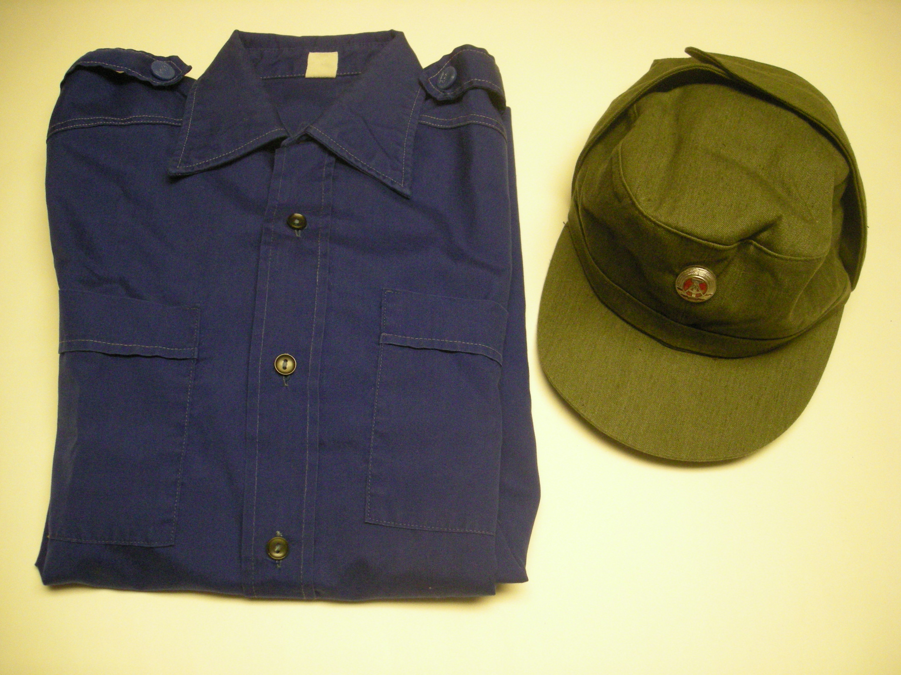 Free German Youth shirt and hat from the German Democratic Republic.